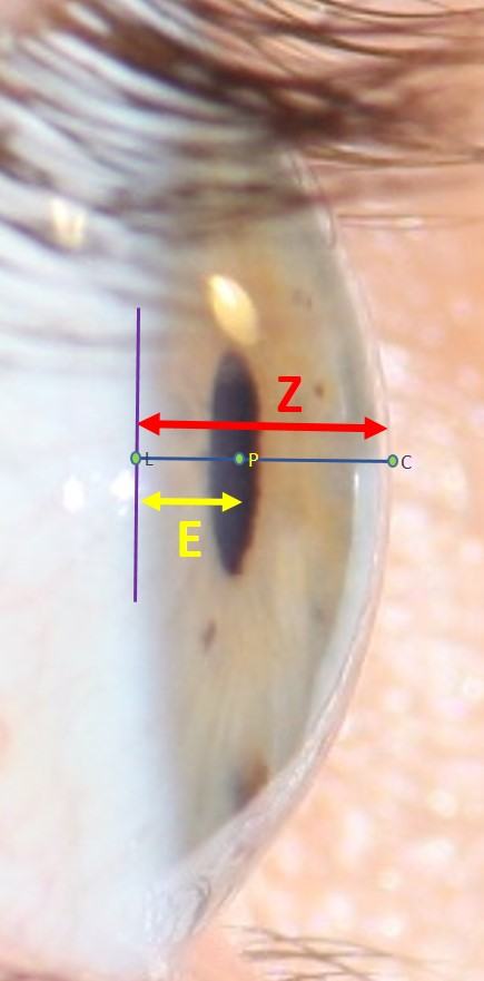 Calculating EZ ratio: This is a side view of the right eye. The purple line is a tangential line drawn at the limbus. The blue line passes through the limbus, pupil centre and cornea and represents the direction of gaze. L is the limbus point, P is the pupil centre point, and C is the corneal point. The more forward the pupil is located, the higher the ratio between E (LP) and Z (LC) and the shallower the anterior chamber.